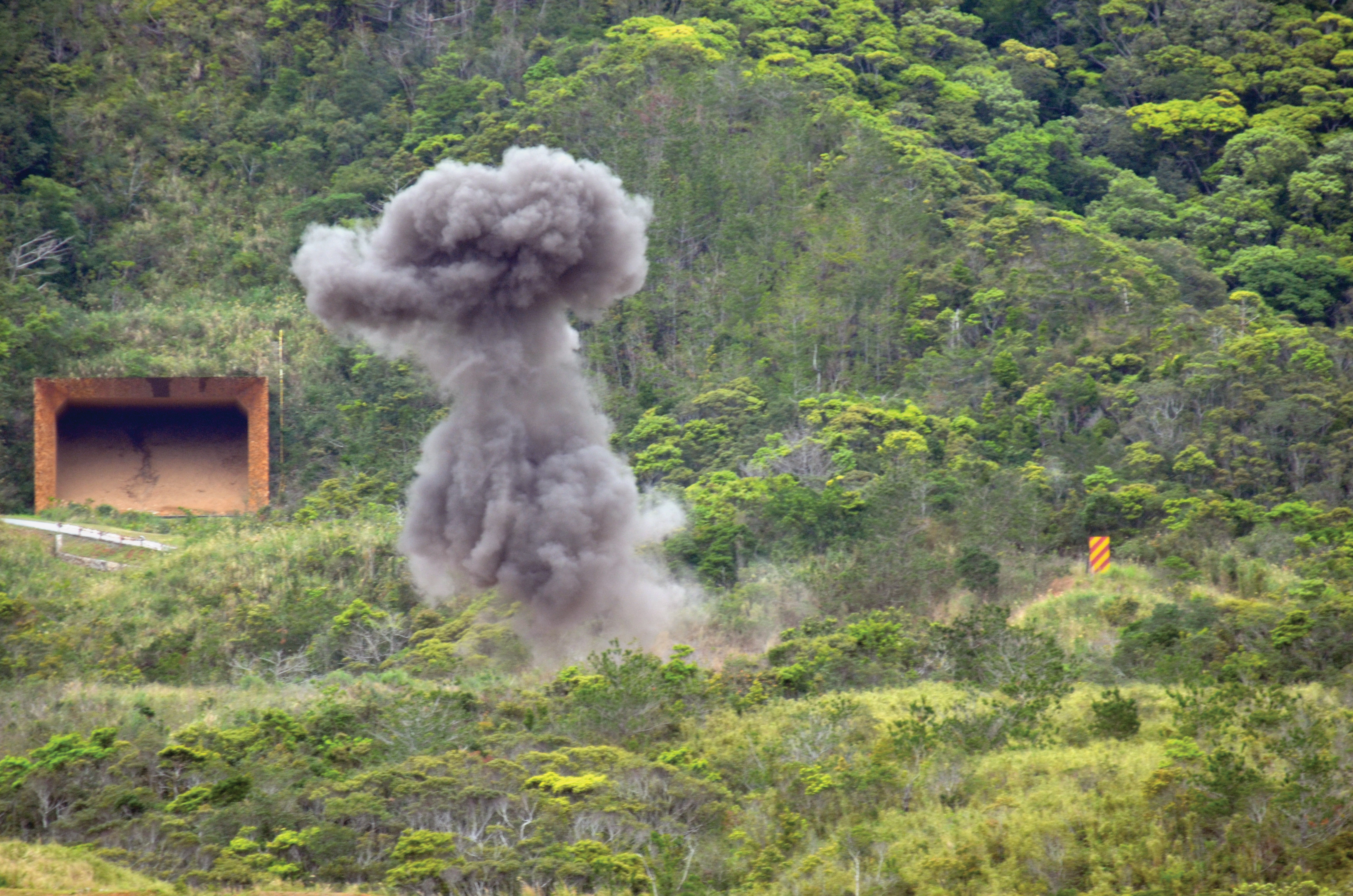 An explosive charge detonates Feb. 8 at Camp Schwab during basic demolition training hosted by 3rd Explosive Ordnance Disposal Company. During the training, Marines learned about assorted shaped charges, common types of explosives and demolition charge preparation. The company is part of 9th Engineer Support Battalion, 3rd Marine Logistics Group, III Marine Expeditionary Force. Photo by Cpl. Mark W. Stroud